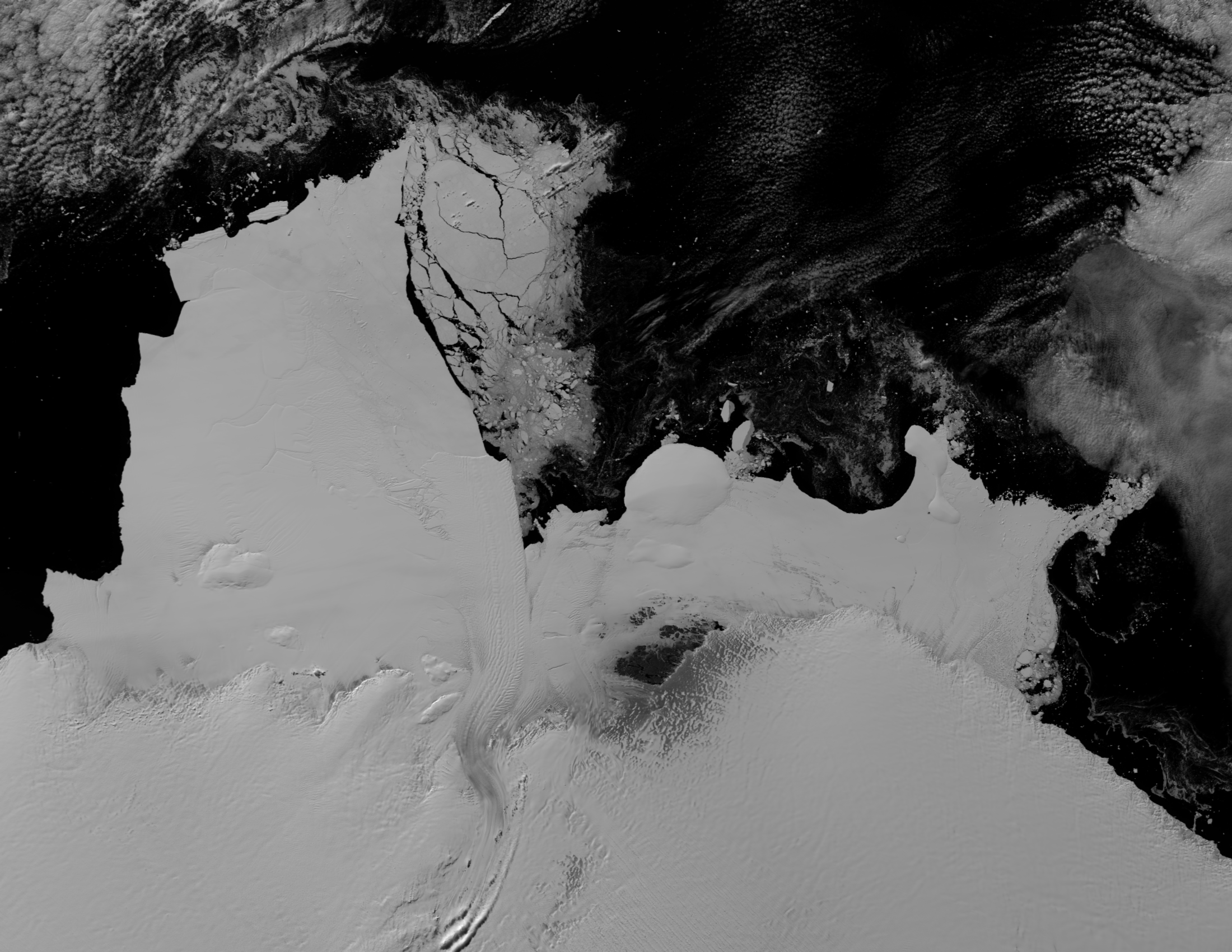 View of the Shakleton Ice Shelf 250 m Date: 2009 Feb 23 / Time: 0800 Shakleton Ice Shelf 250 m Map Projection: Polar Stereographic Ellipsoid Map Reference Latitude: -90.0 Map Reference Longitude: 90.0 Map Second Reference Latitude: -71.0 Map Equatorial Radius: 6378137.0 ; wgs84 Map Polar Radius: 6356752.314245 Map Origin X: 200500.0 ; -(250.0 * -802) Map Origin Y: 2865500.0 ; 250.0 * 11462 Grid Map Origin Column: 0.0 Grid Map Origin Row: 0.0 Grid Map Units per Cell: 250 Grid Width: 2200 Grid Height: 1700 Corner Coordinates UL -63.999957 94.002482 LL -67.733708 94.696125 UR -63.216853 104.671938 LR -66.808002 107.086644